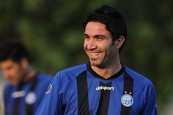 Javad Nekounam photo